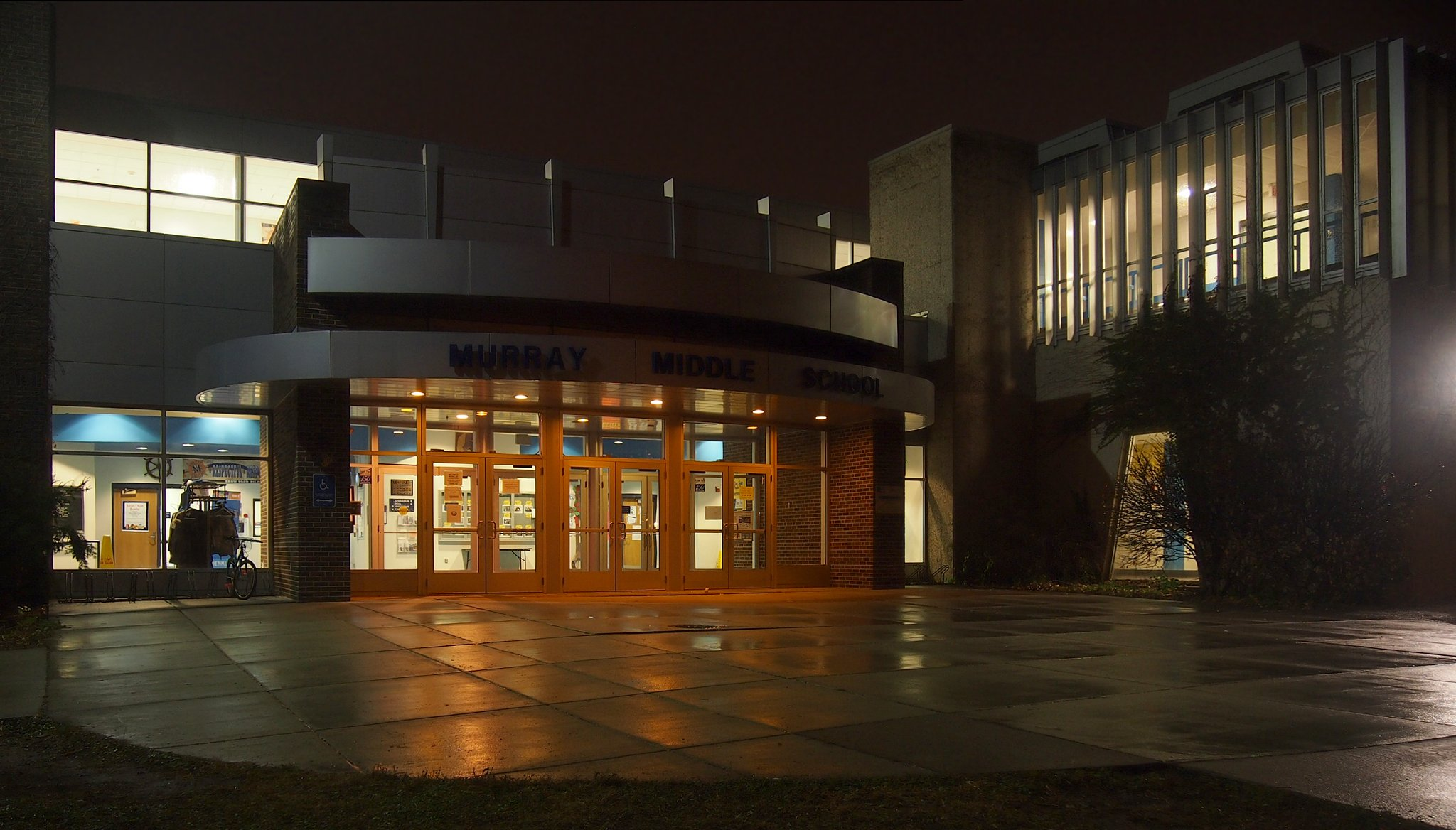 Murray Middle School, 2200 Buford Ave, St Paul, Minnesota, USA. Viewed from the north-northeast.